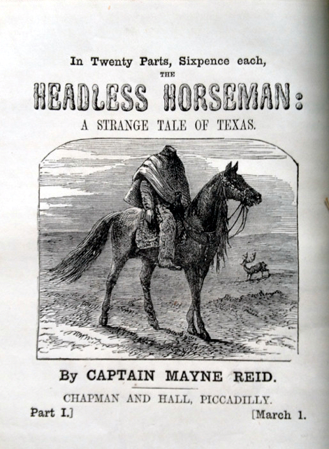 Capt. Mayne Reid’s version of a Texas Legend, published in 1865